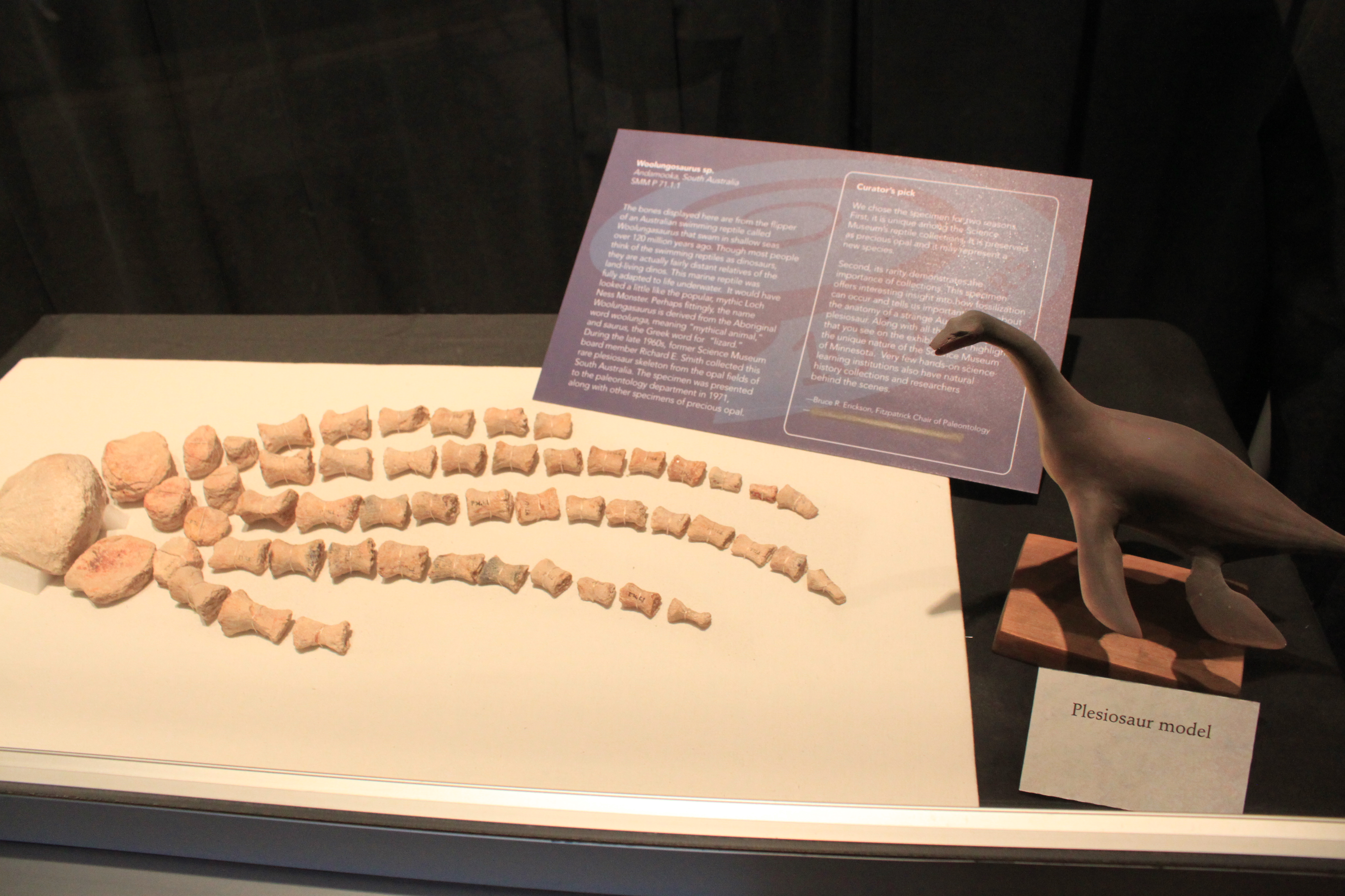 Taken at the Minnosota Science Museum: Dinosaurs and Fossils Gallery. Creative Commons licensed photo by . Please feel free to take and reuse for any purpose.